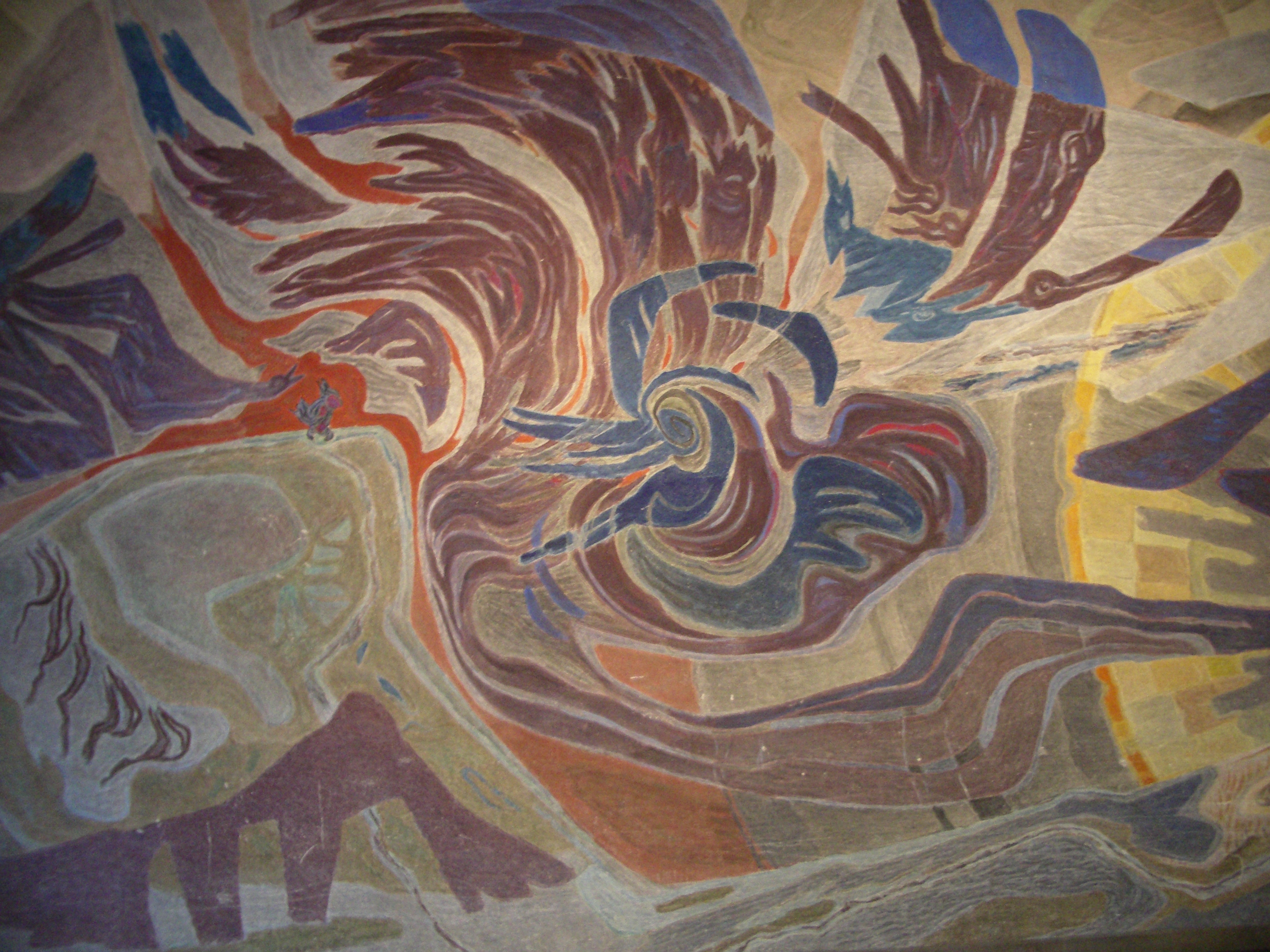 The storm in Vera Nilsson´s The winds""